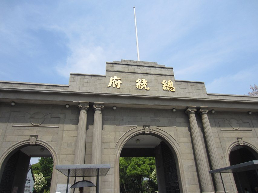 Nanjing Presidential Palace